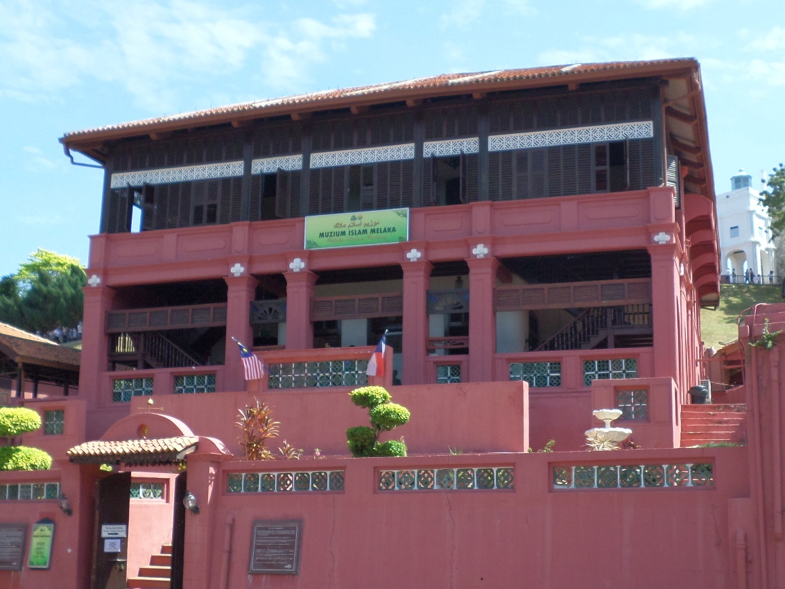 Melaka Islamic Museum, Central Melaka, Melaka, MalaysiaBahasa Melayu: Muzium Islam Melaka, Melaka Tengah, Melaka, Malaysia